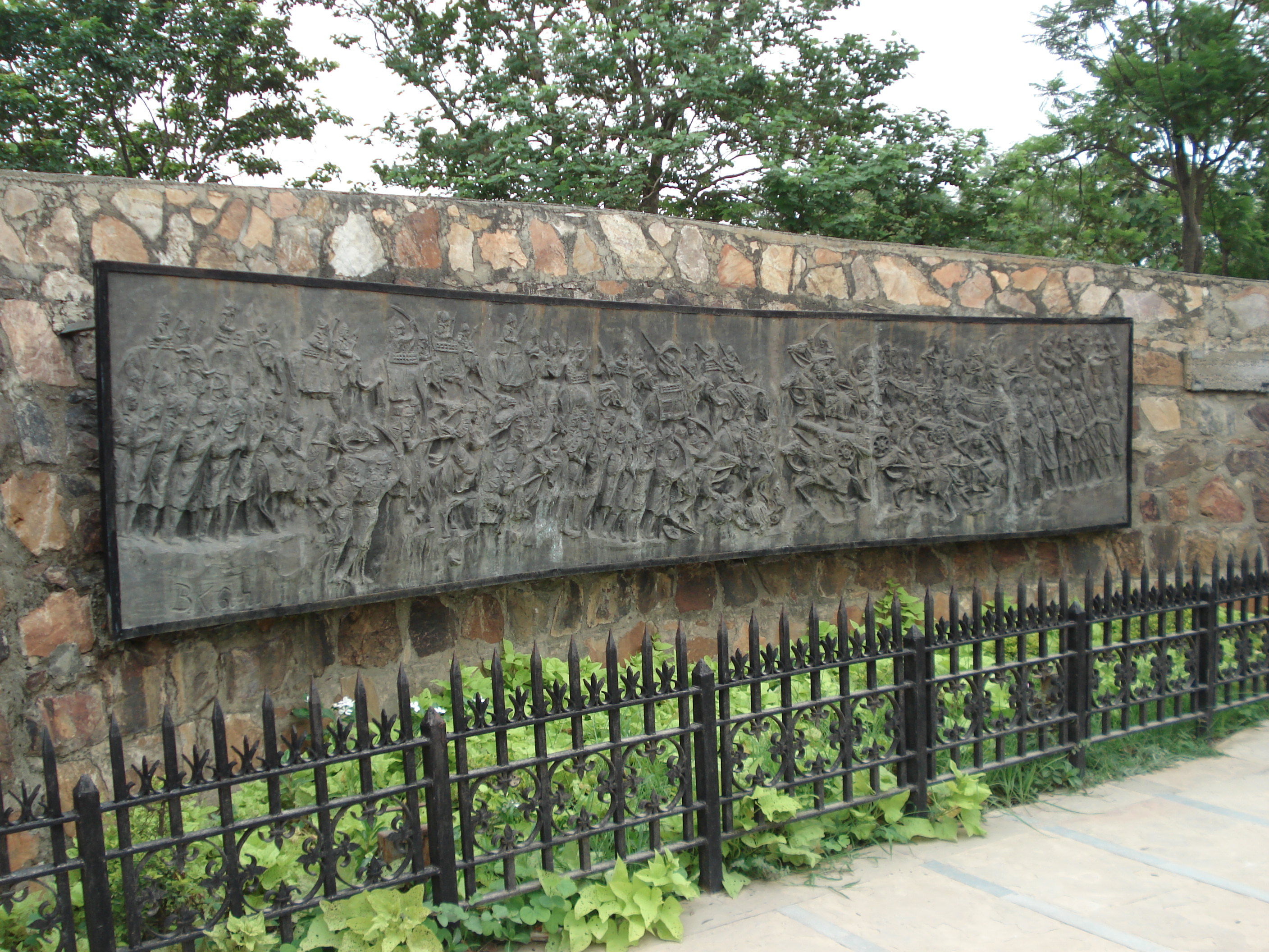 This is a mural in metal, put up at war site Kala Amb, at Panipat